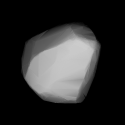 3D convex shape model of 391 Ingeborg, computed using light curve inversion techniques. J. Hanuš, J. Ďurech, M. Brož, B. D. Warner (June 2011). "A study of asteroid pole-latitude distribution based on an extended set of shape models derived by the lightcurve inversion method". Astronomy and Astrophysics 530: A134. ISSN 0004-6361. arXiv